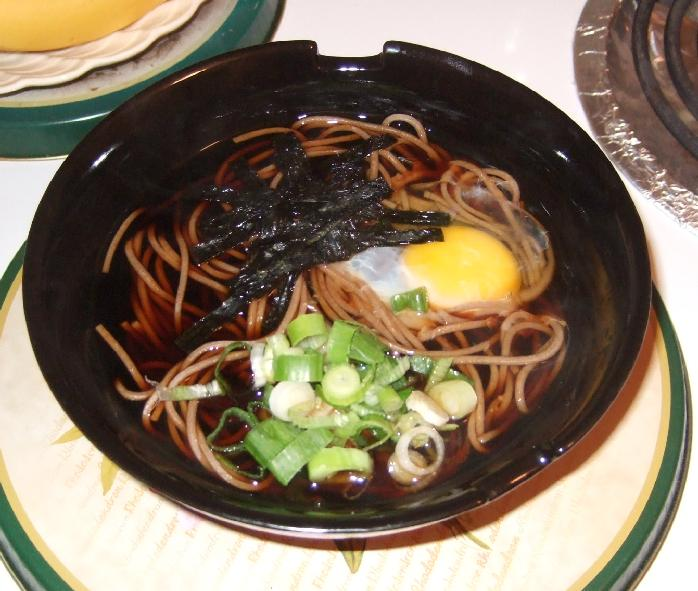 Tsukimi soba made in my kitchen.